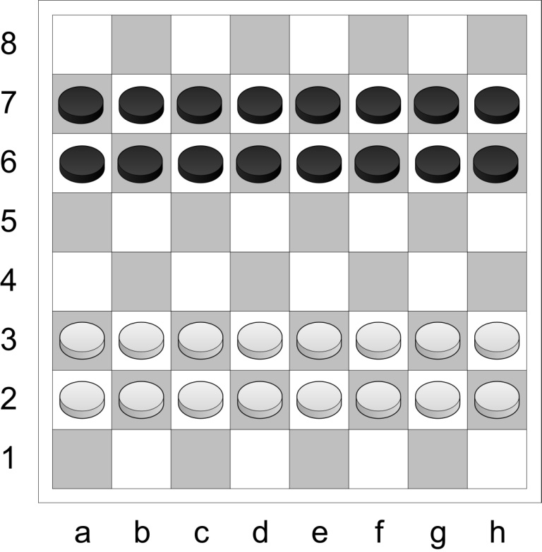 Turkish draughts on board